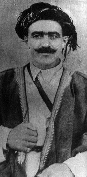 Hadjo Agha of the Hevêrkan tribe.